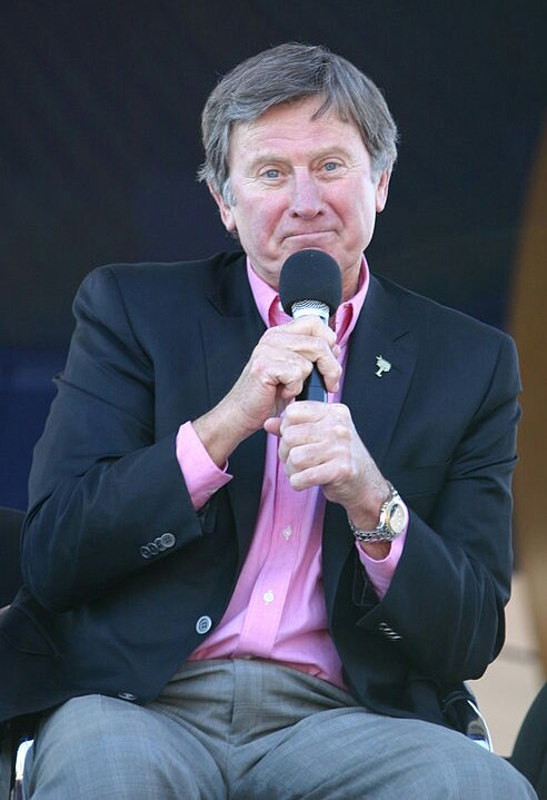 Steve Spurrier at the Sorcerer Hat Stage during ESPN The Weekend, February 26, 2010